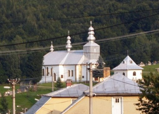 Pohled na řeckokatolický kostel v Roškovcích